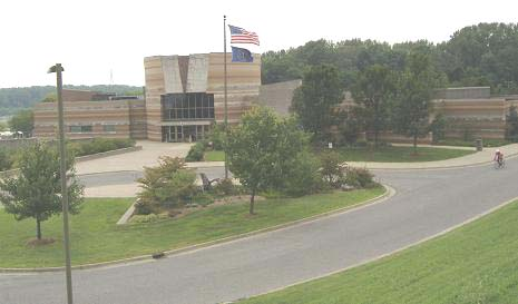 The museum at Falls of the Ohio State Park, taken the afternoon of August 14, 2006.